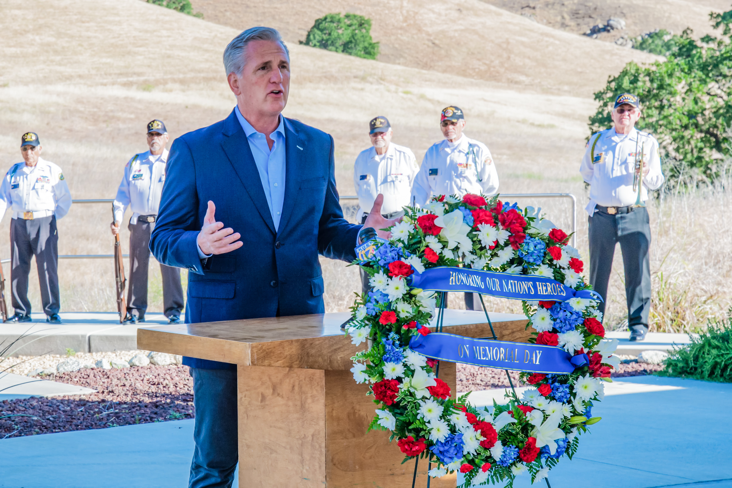 Freedom is not free. 🇺🇸 So grateful to all who paid the ultimate price so that we can live in the greatest country on earth.